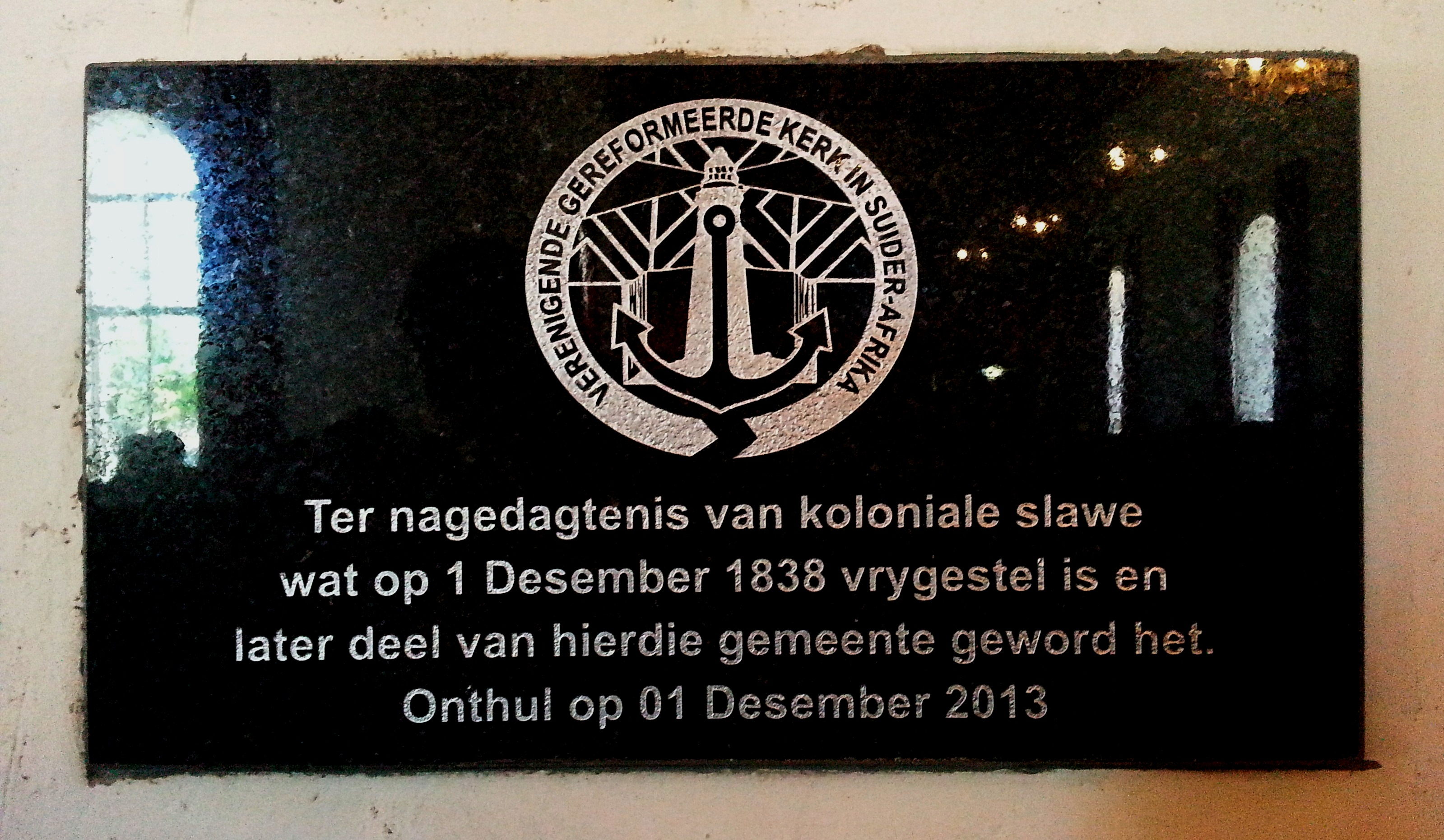 Plaque commemoration the 175th anniversary of the emancipation of slaves in the Cape Colony. Located next to the pulpit of the Mission Church, Saron, Western Cape South Africa. Unveiled during a commemorative service held in the church. Text on the plaque is in Afrikaans and reads: 'In memory of colonial slaves who were emancipated on 1 December 1838 and later became part of this congregation. Unveiled 1 December 2013.'